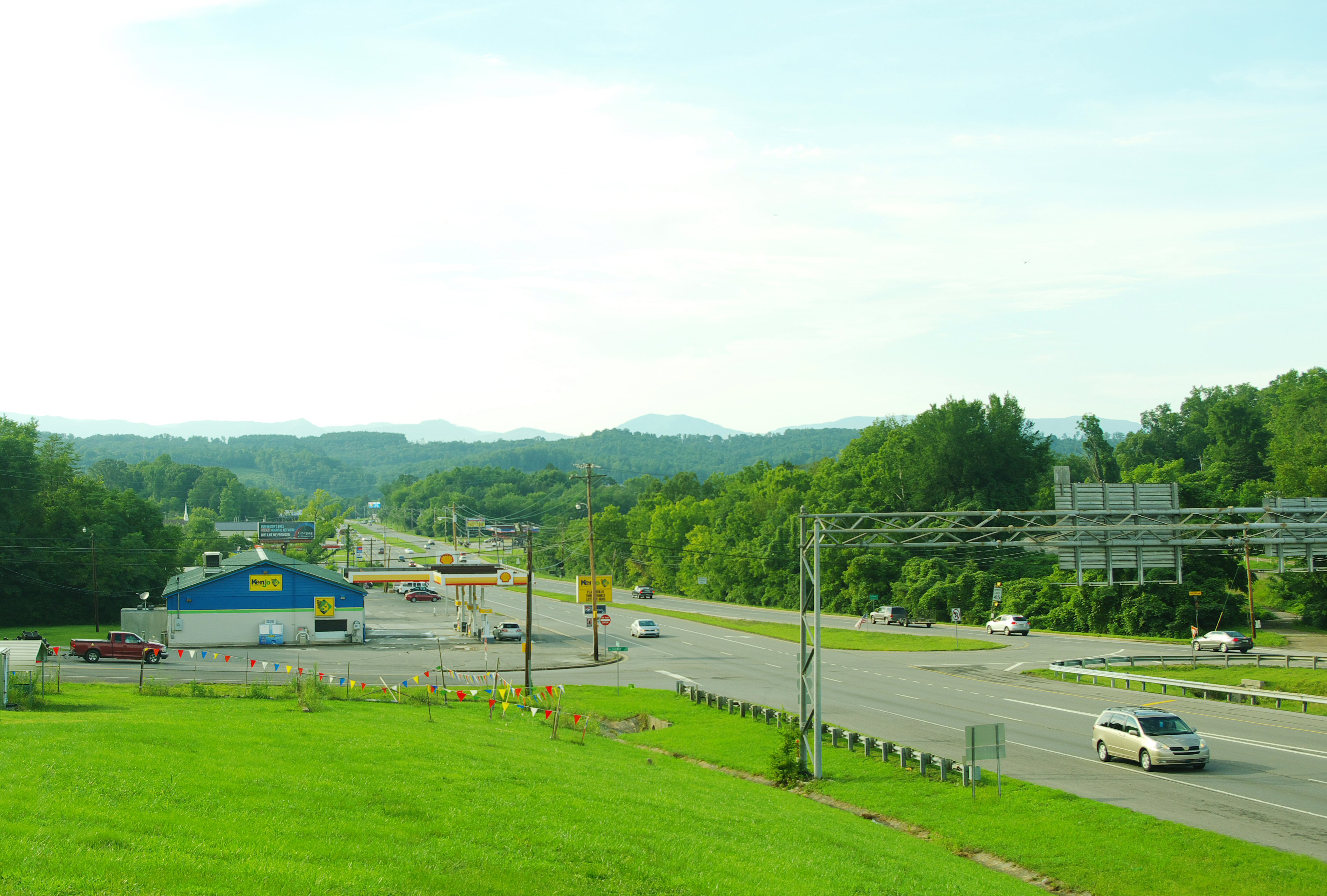 Oak Ridge Highway (Tennessee State Route 62) passing through the Solway community of Knox County, Tennessee, United States.